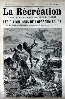 Les Dix Millions de l'Opossum Rouge by French writer Louis-Henri Boussenard (1847-1910). First published in 1879.